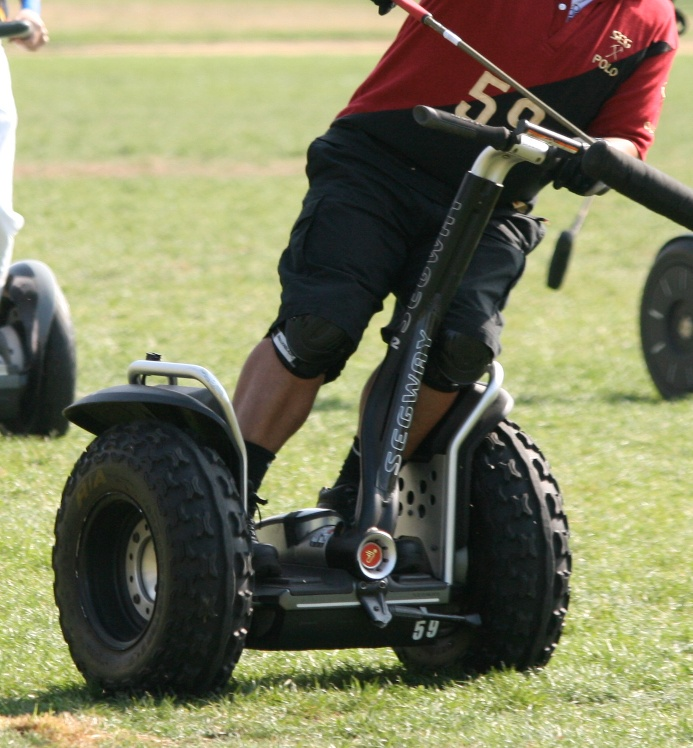 Segway x2